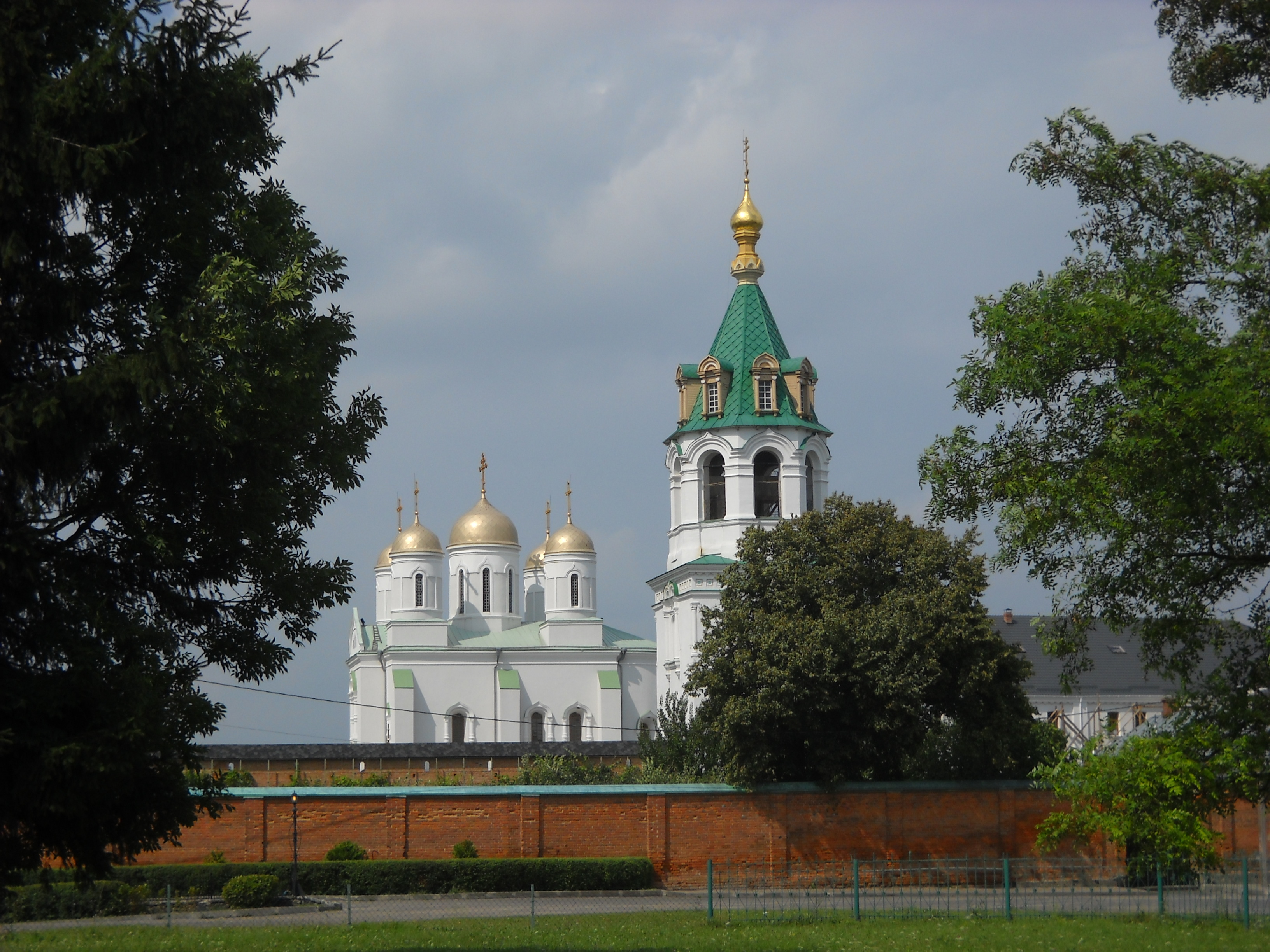 Zimne Monastery. A general view